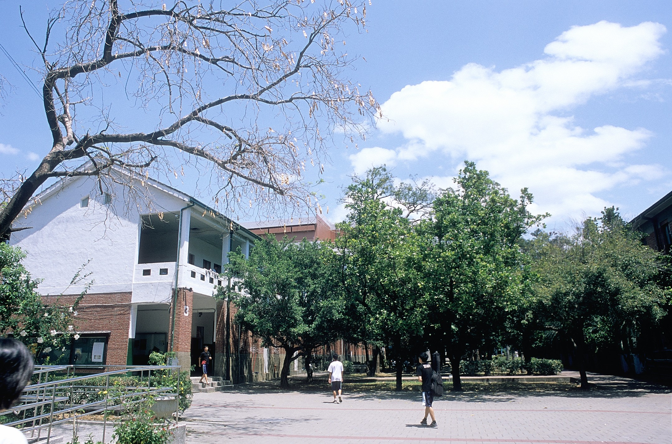 KSHS No.3 Red brick building, with newly built structure (White 2nd floor)